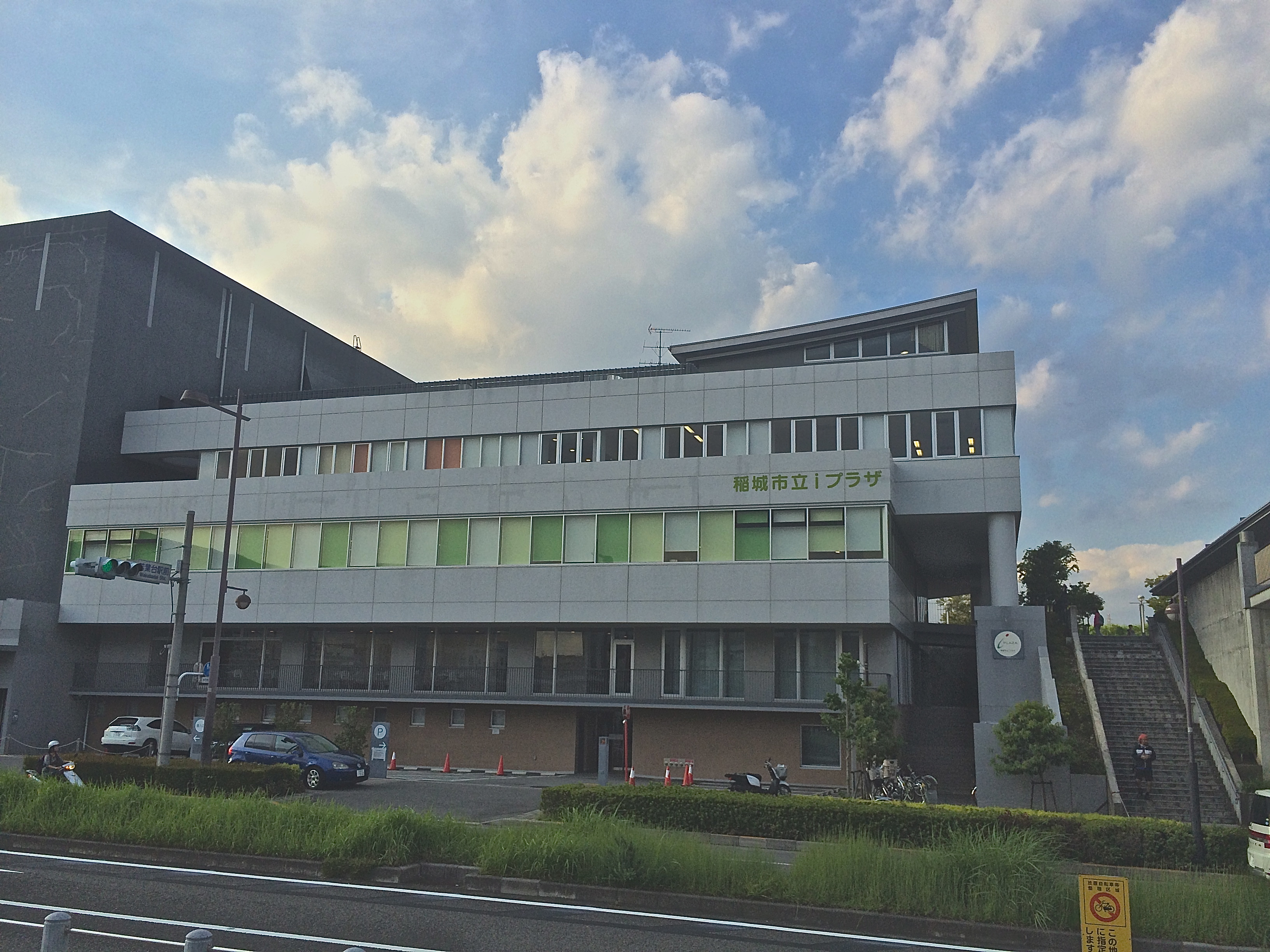 The outside of appearance, Inagi City i Plaza Edited by image editting software